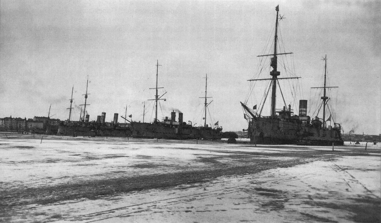 Imperial Russian minelaiyer Ladoga, Onega, Amur, Enisey and Khoper in Helsingfors after 1912.